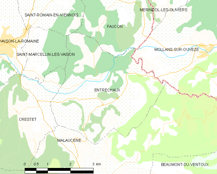 Map of French municipality Entrechaux